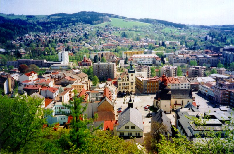 Náchod, Czech Republic.